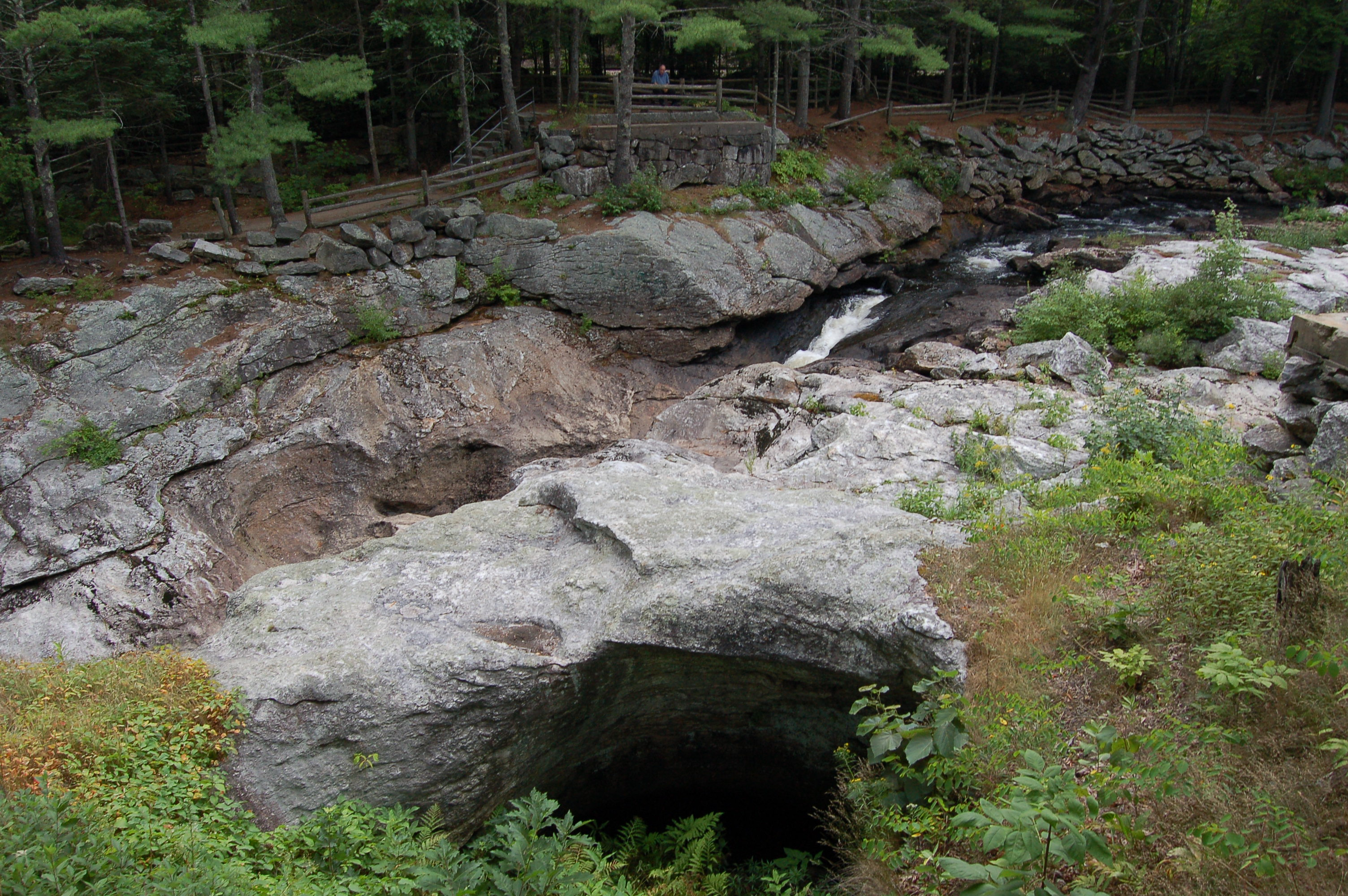 Snow Falls in West Paris, Maine